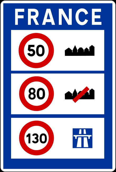 Speed limits sign C25a in France since 1.7.2018